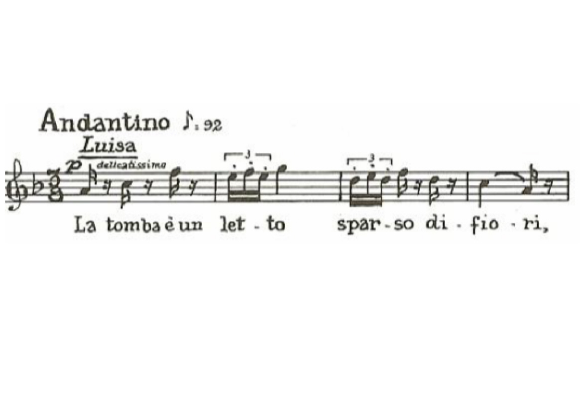 Score fragment from Giuseppe Verdi's 1849 opera Luisa Miller